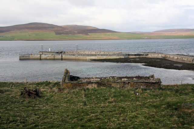 Skaill pier, Egilsay The two arms of the pier are seen from the hillside above Skaill.